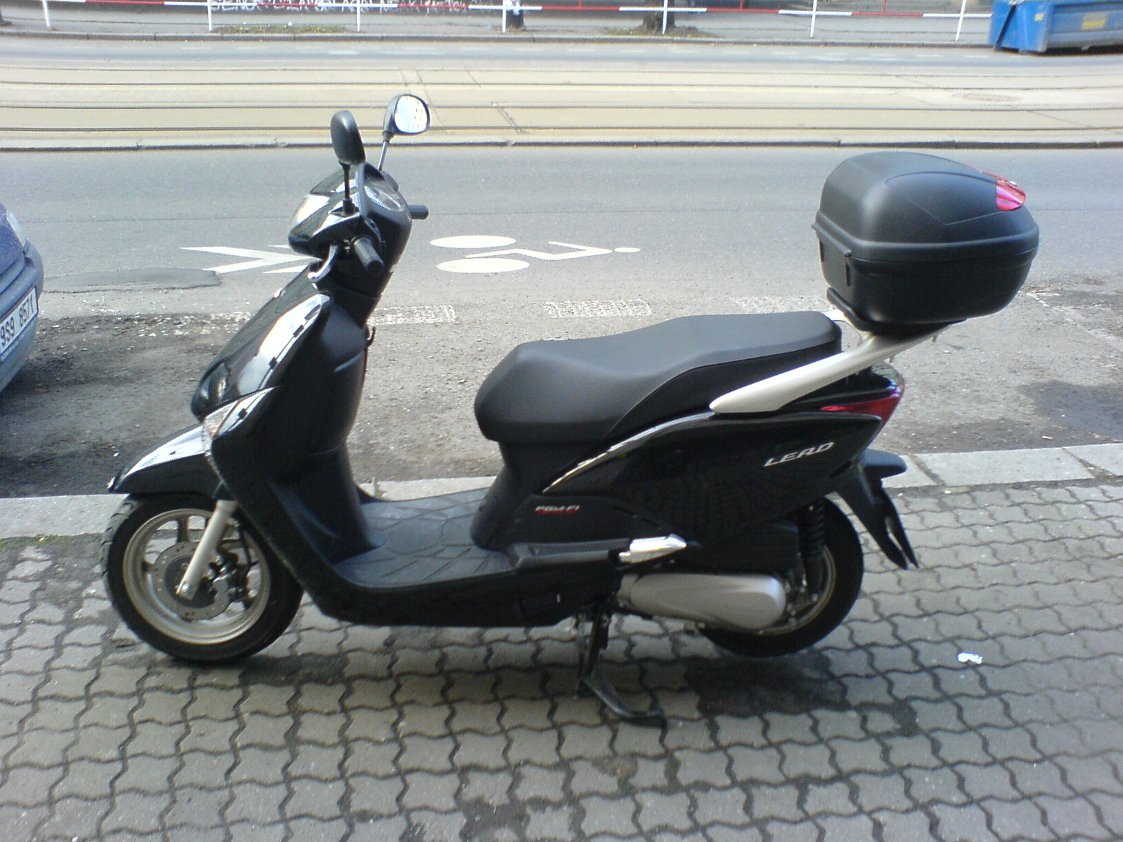 Honda Lead NHX-110 scooter